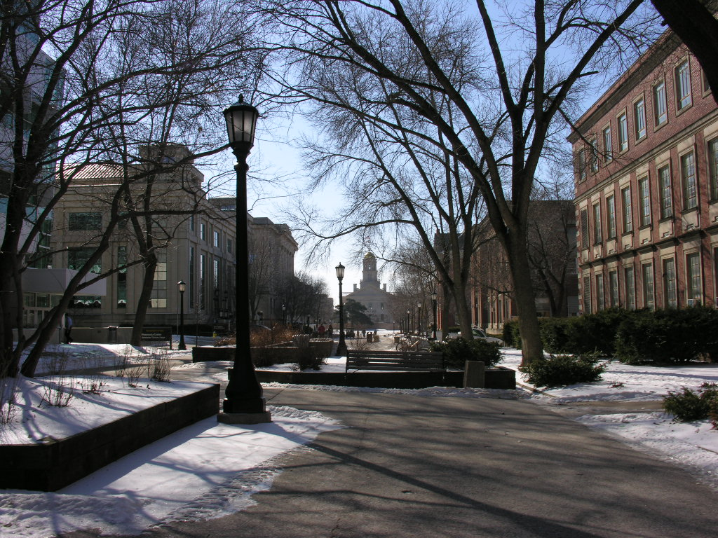 Photo taken in 2006 by Kevin Satoh of Cleary Walkway with the Old Capitol in the background.